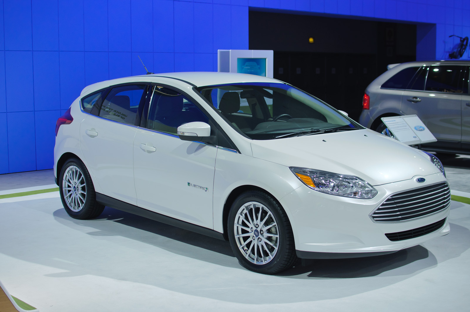 2012 Ford Focus Electric at the 2011 LA Auto Show